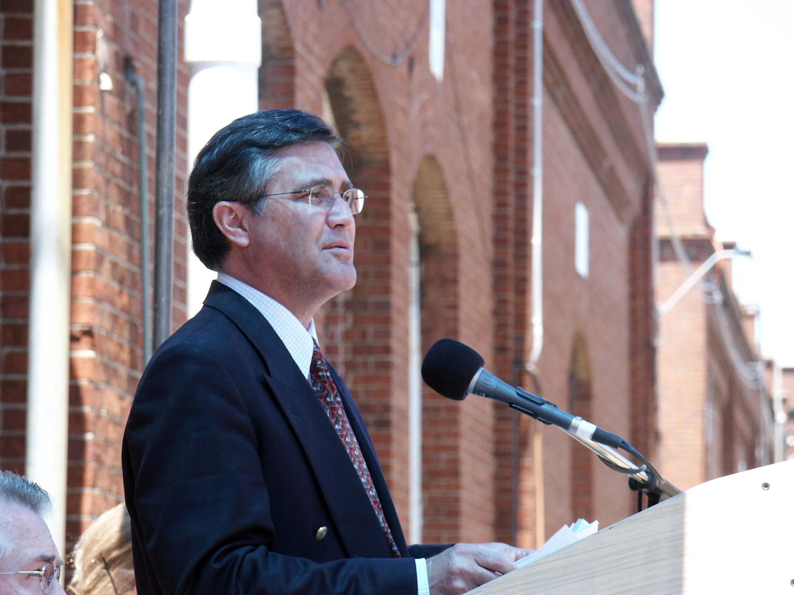 Geoffrey Gallop Premier of Western Australia (2001 - 2006) at the Midland Railway Workshops.